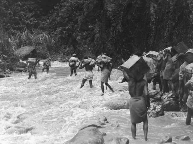 Native carriers bring supplies across the Faria River to the Australian 2/16th Infantry Battalion on John's Knoll